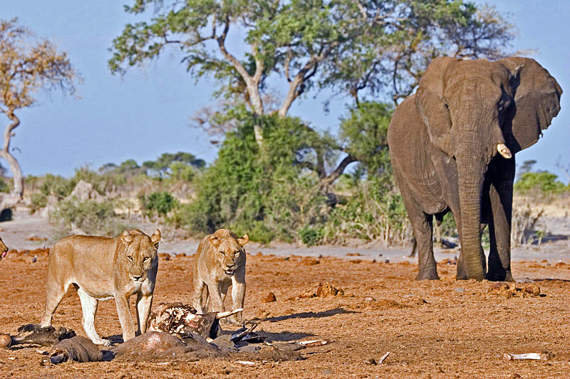 Elefant and Lions in Savuti (Botswana)(additional note by JackyR) The carcase in front of the lions is of a young elephant.